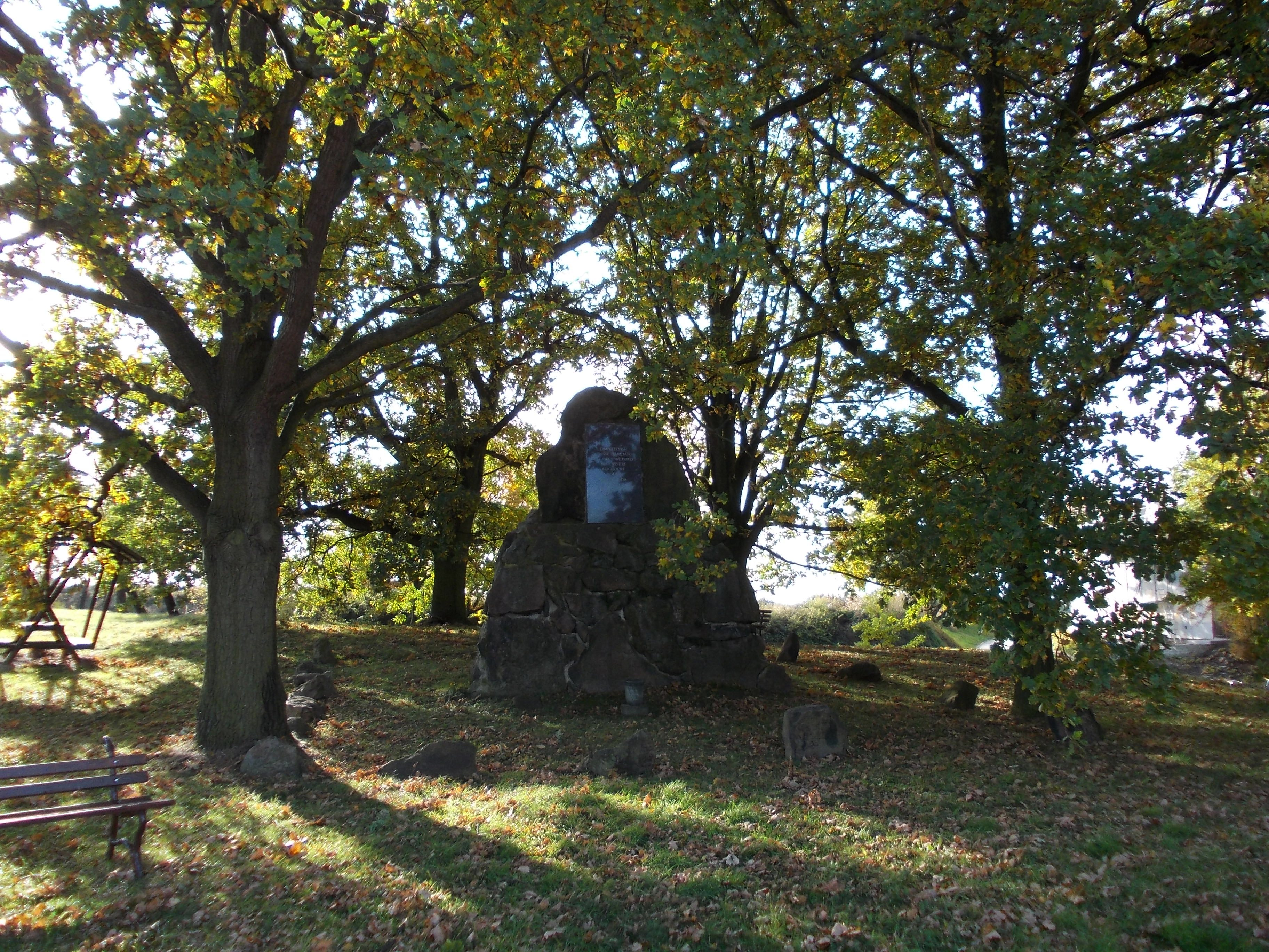 Memorial to the victims of World Wars I and II in the villages of Bergisdorf, Golben and Grossosida, situated in Golben (Gutenborn, disrict of Burgenlandkreis, Saxony-Anhalt)